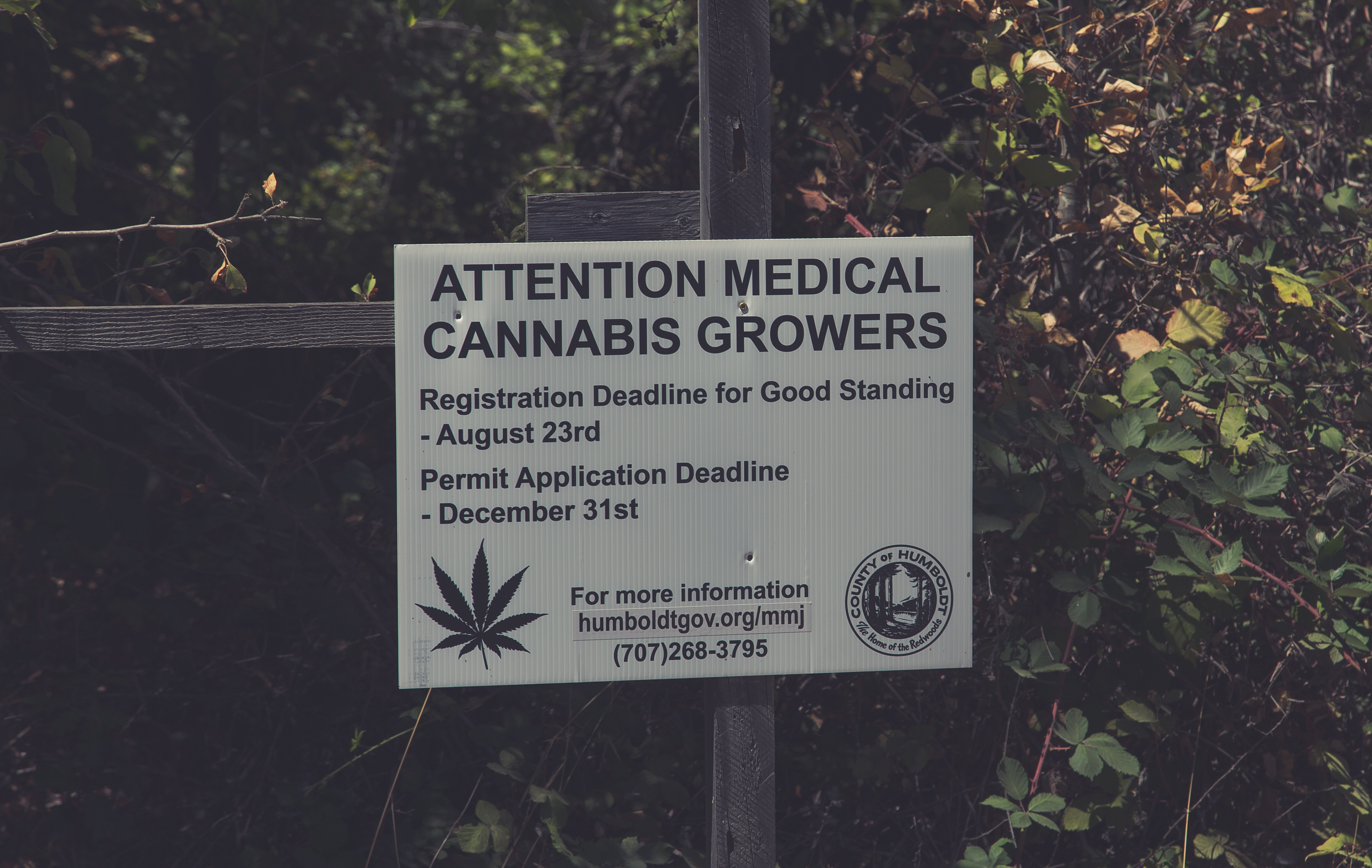 A sign about registration for medical cannabis growers in Garberville, Humboldt County, California.